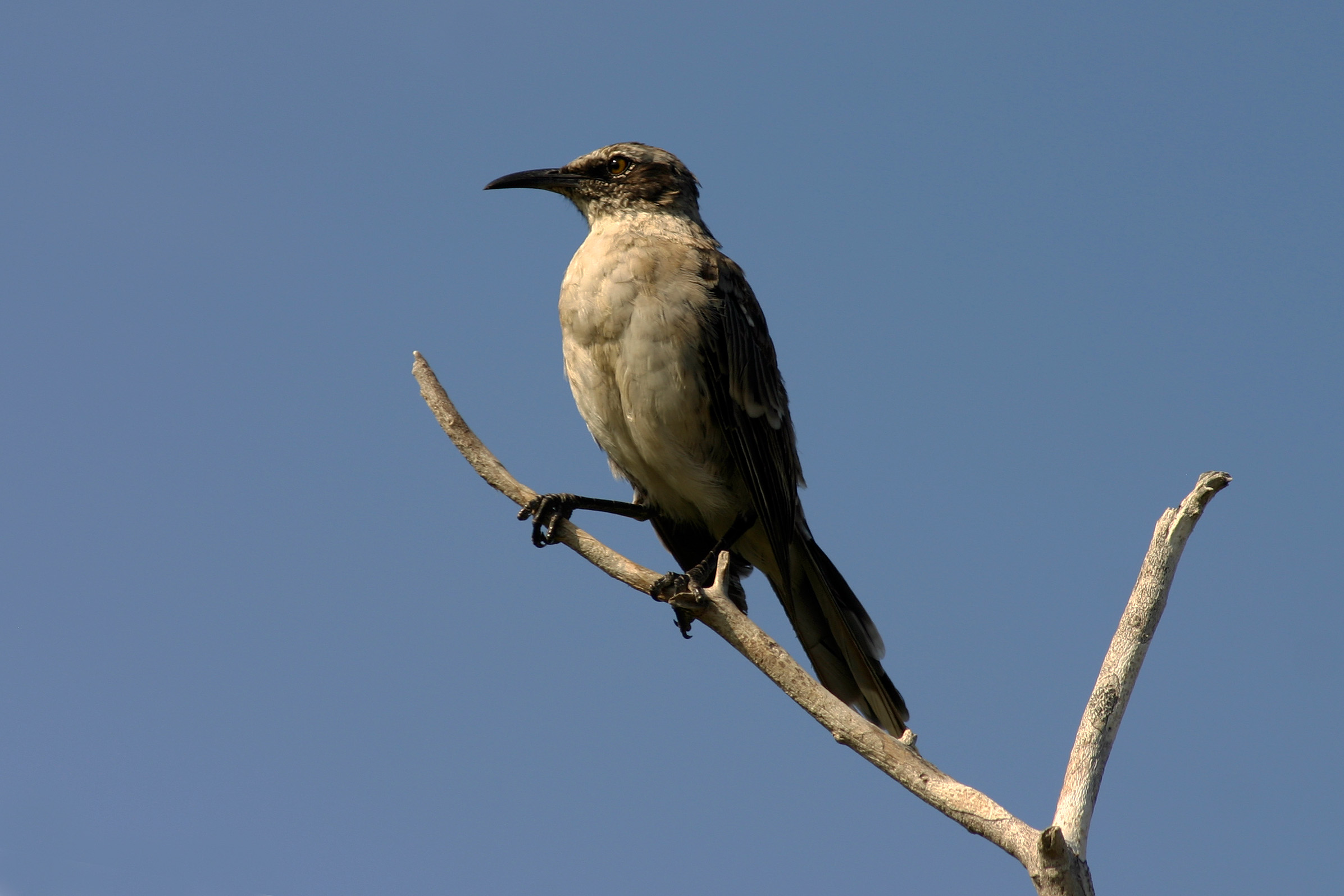 Galapagos mockingbird (Mimus parvulus), Genovesa Island, Galapagos Islands.